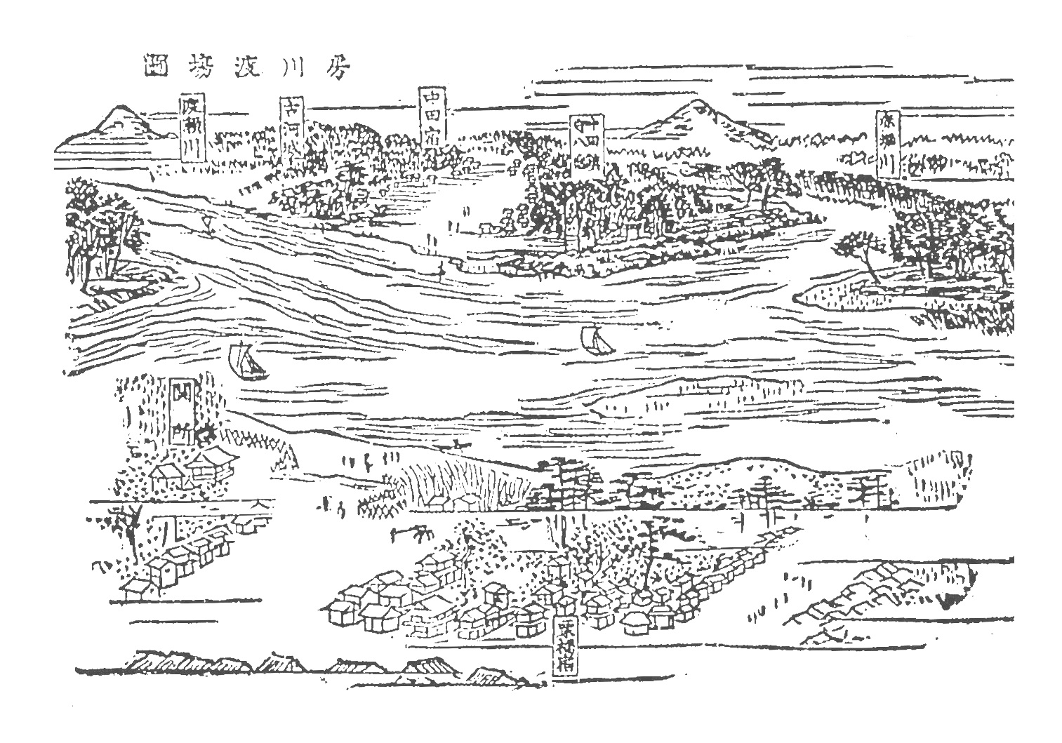 National Diet Library Digital Collection This image is available from the website of the National Diet Library This tag does not indicate the copyright status of the attached work. A normal copyright tag is still required. See Commons:Licensing for more information. English | 日本語 | +/−